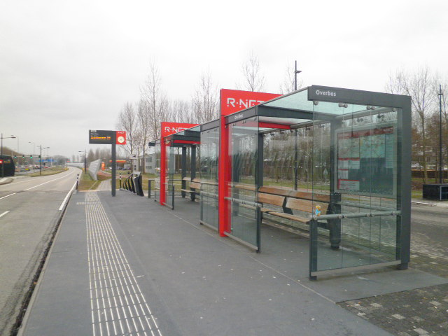 Busstop Overbos in Hoofddorp. Part of the former Zuidtangent and now R-Net.